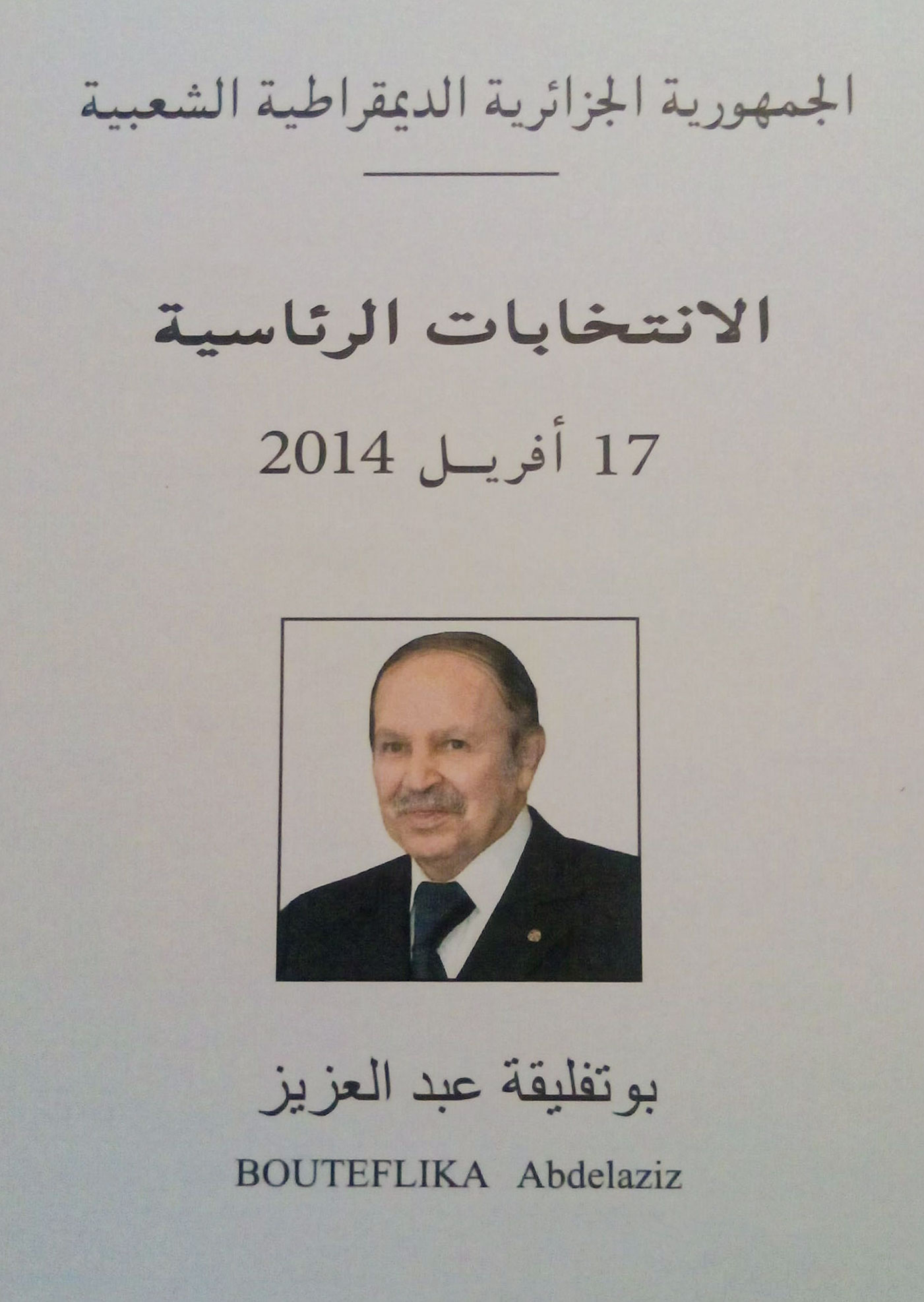 Ballot for Abdelaziz Bouteflika, 2014